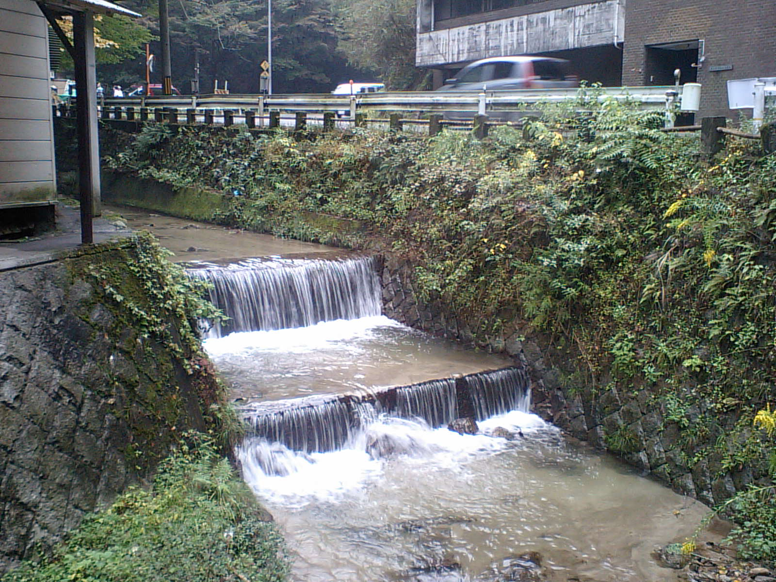 Shirakawa (Upper stream) in Kyoto Kitashirakawa Jizoudani-cho